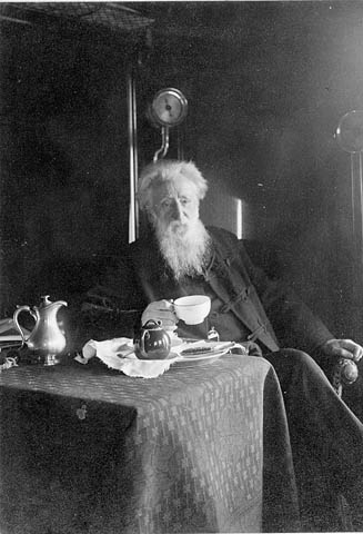 Reverend William Booth Source: Library and Archives Canada Terms of use Credit: Canada. Patent and Copyright Office / Library and Archives Canada / PA-029719 Restrictions on use: Nil Copyright: Expired Additional name(s) Photographer A.A. Gray & Co., Toronto